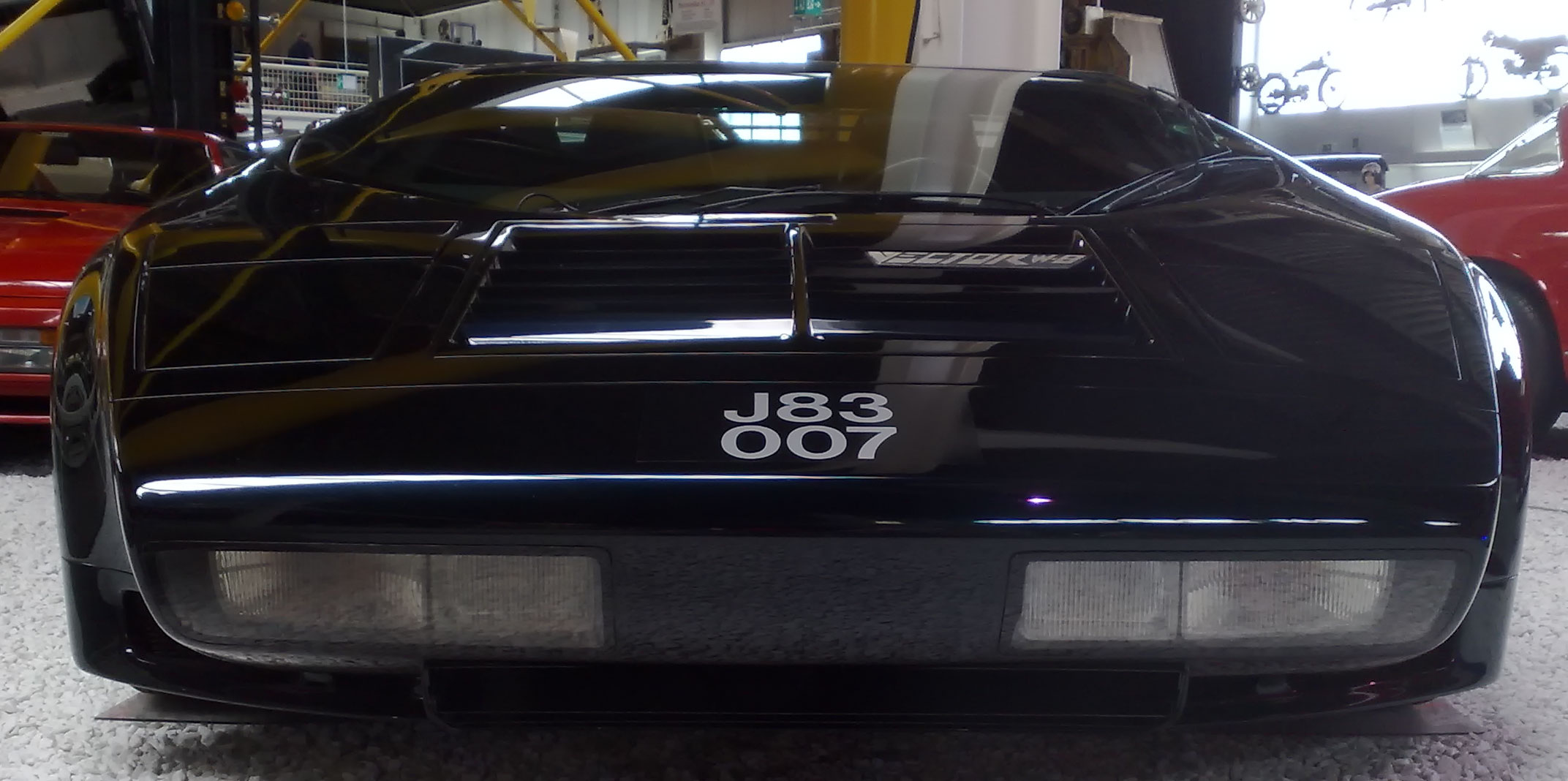 Vector Twin Turbo W8 at Auto- und Technikmuseum Sinsheim